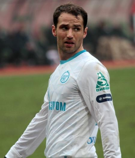 Roman Shirokov with FC Zenit St. Petesburg.